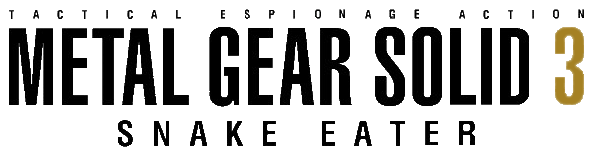 Logo used for Konami's Metal Gear Solid 3 video game (2004).